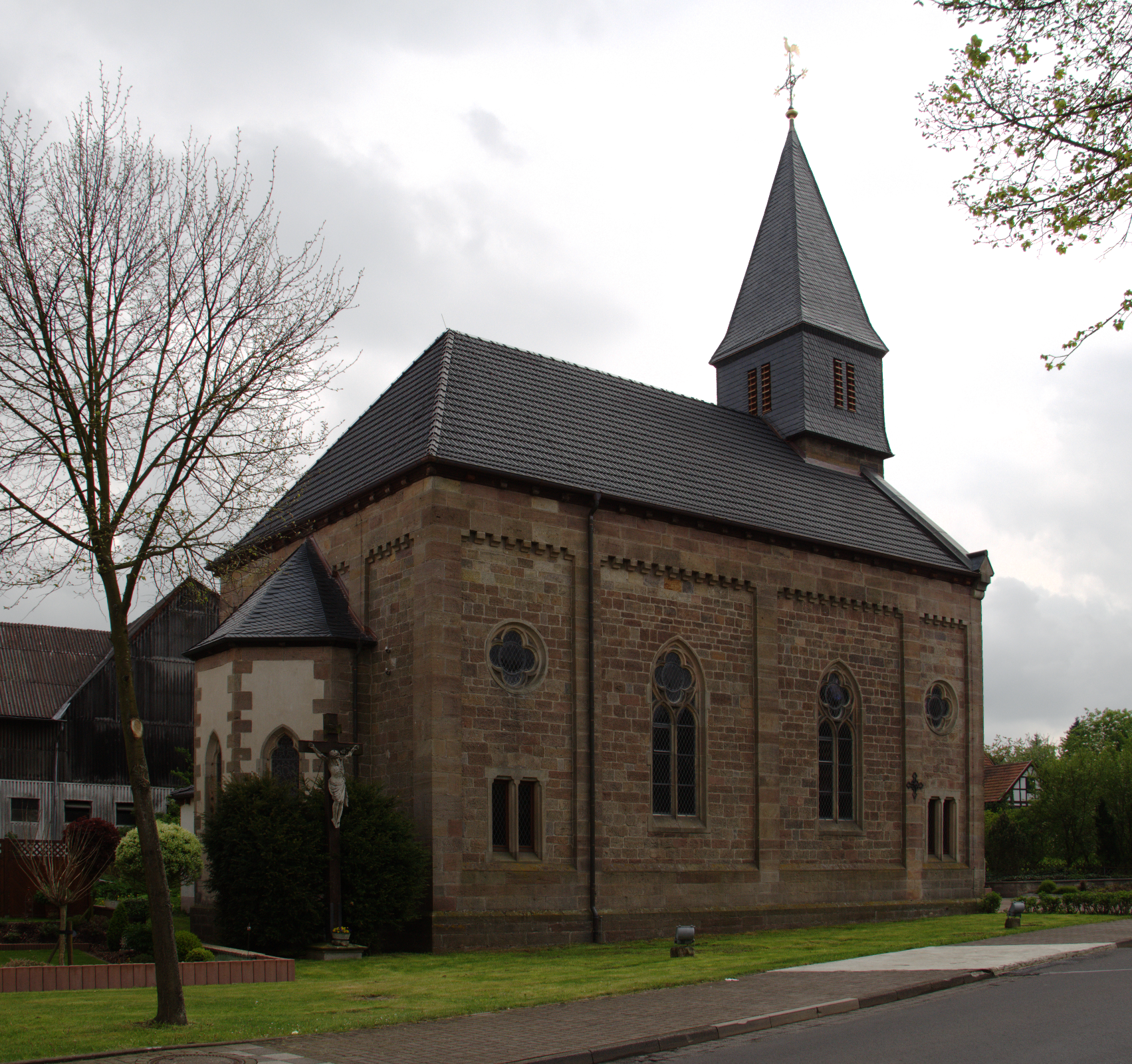 Catholic Church in Jossa, Hosenfeld, Hessen, Germany